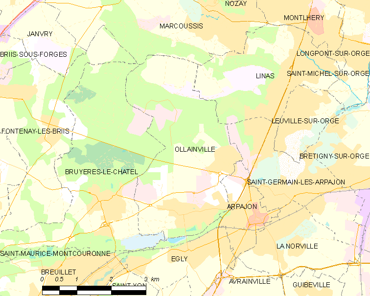 Map of French municipality Ollainville